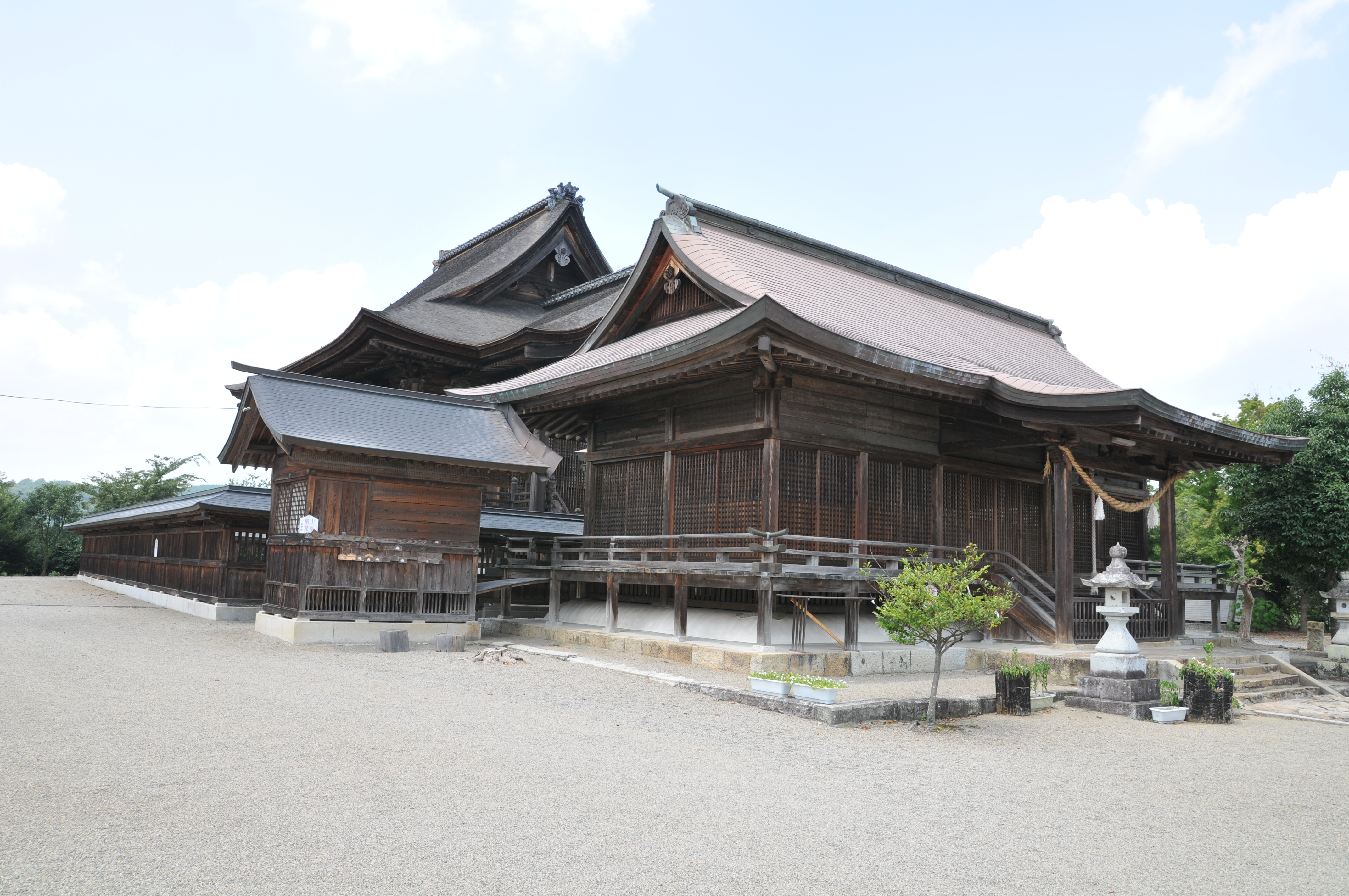 Sōja shrine